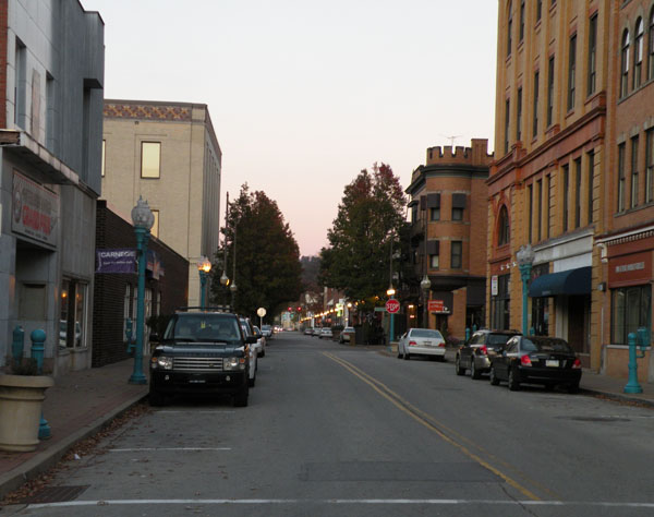 Picture of East Main Street, Carnegie, Pennsylvania, on November 1, 2009.